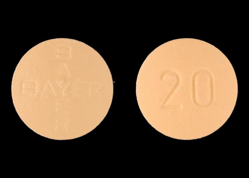 Drug Name: Levitra 20 MG Oral Tablet Ingredient(s): Vardenafil Drug Label Imprint: BAYER;20 Color(s): Orange Shape: Round Size (mm): 8.00 Score: 1 Inactive Ingredient(s): ShowHide cellulose, microcrystalline / crospovidone / silic... cellulose, microcrystalline / crospovidone / silicon dioxide / magnesium stearate / hypromellose / polyethylene glycol / titanium dioxide / ferric oxide yellow / ferric oxide red Drug Label Author: Schering Plough Corporation DEA Schedule: Non-scheduled